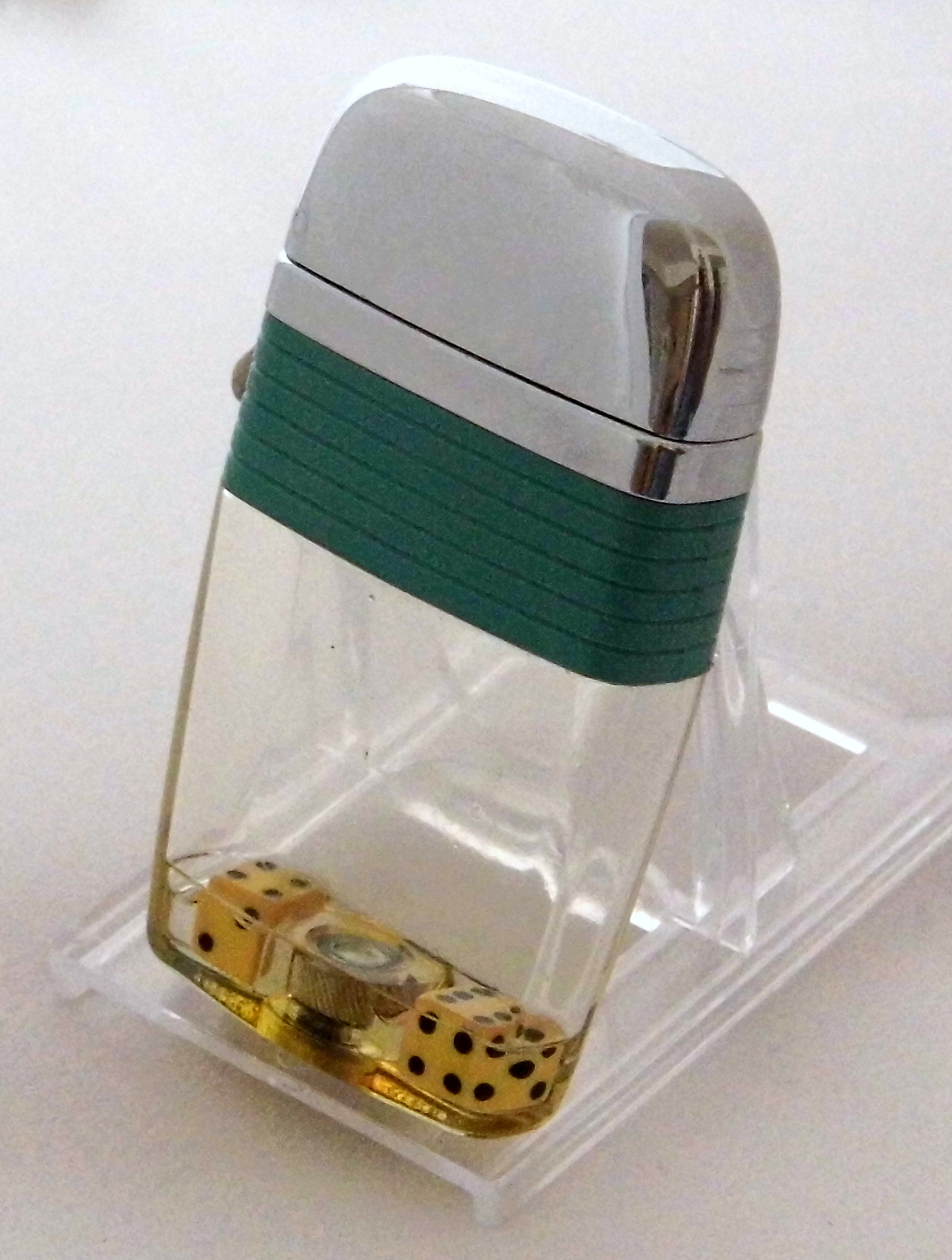 Vintage Cigarette Lighter - Scripto Vu-Lighter With A Pair Dice In The Fluid Compartment